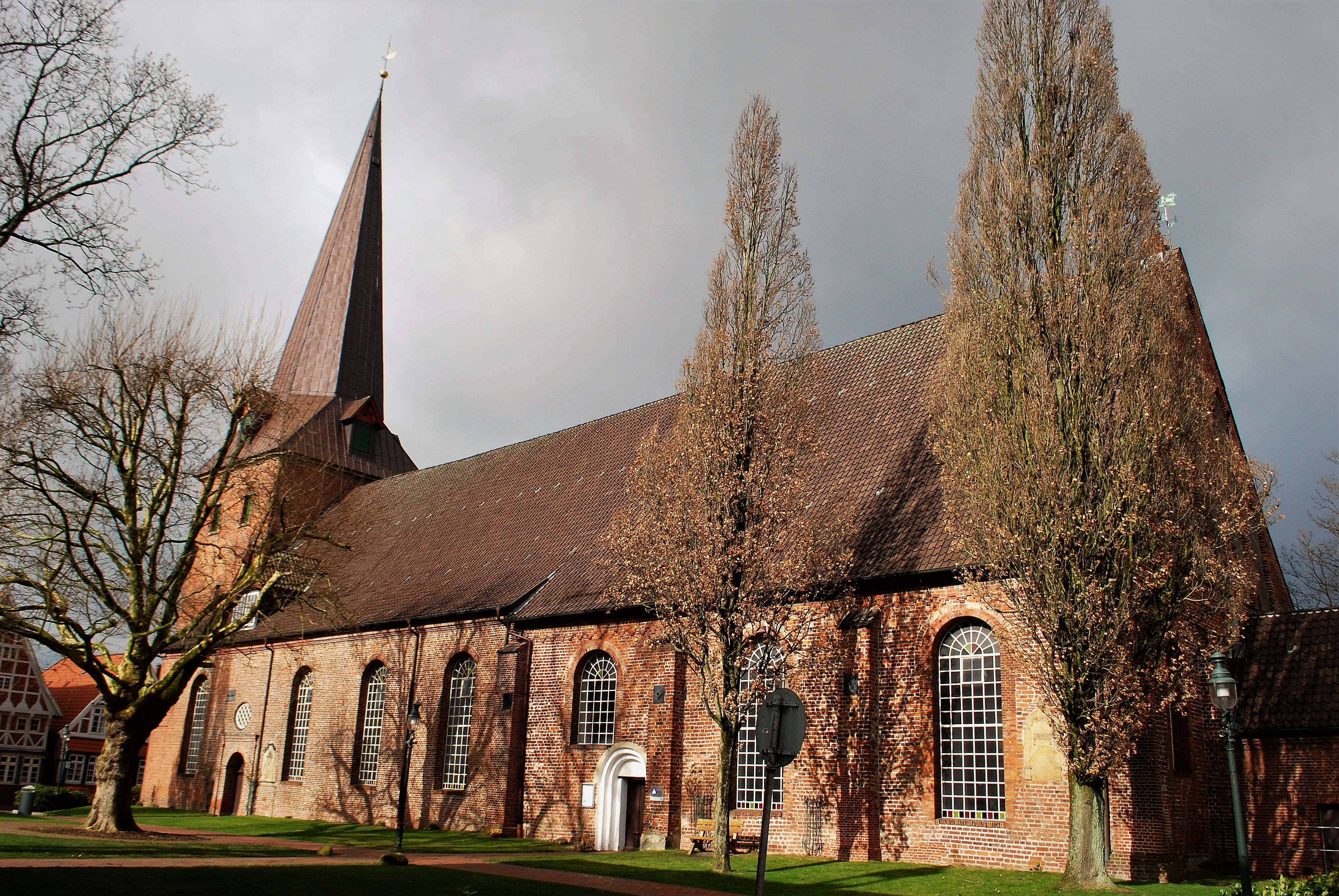 Church Severikirche. Otterndorf is a town in the mouth of the river Medem on part of the Elbe delta in the district Cuxhaven in the region of Lower Saxony, Germany